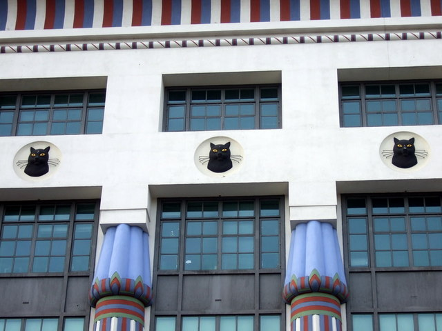 Cat frieze on Carreras building These decorative cats heads running along the facade of the old Carreras factory, now Greater London House, resemble ordinary domestic moggies rather more that the monumental replicas that flank the main doorway. The whole building, beautifully restored in recent years, is a wonderful example of Art Deco architecture.